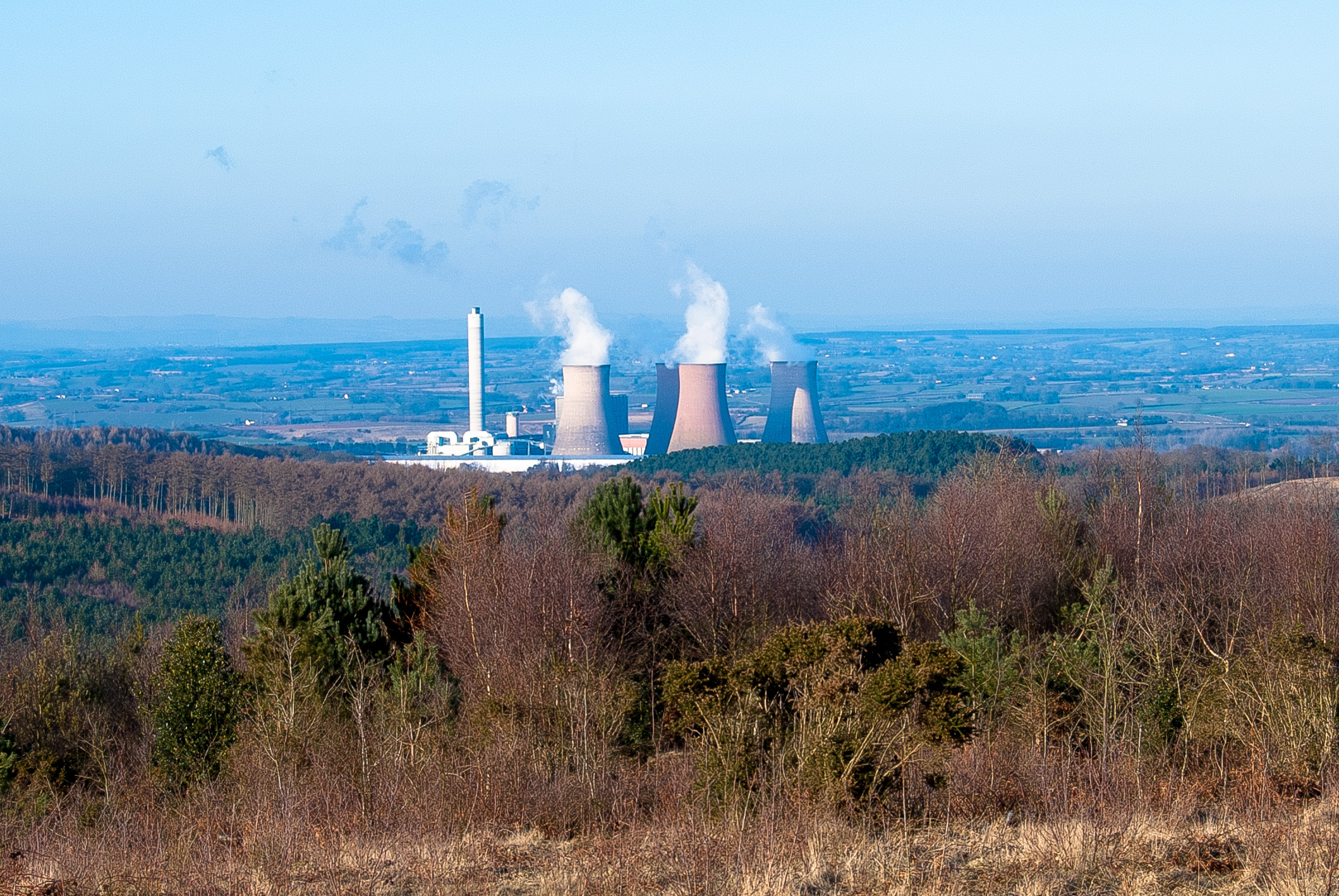 Rugeley Power Station as viewed from Castle Ring on Cannock Chase, UK